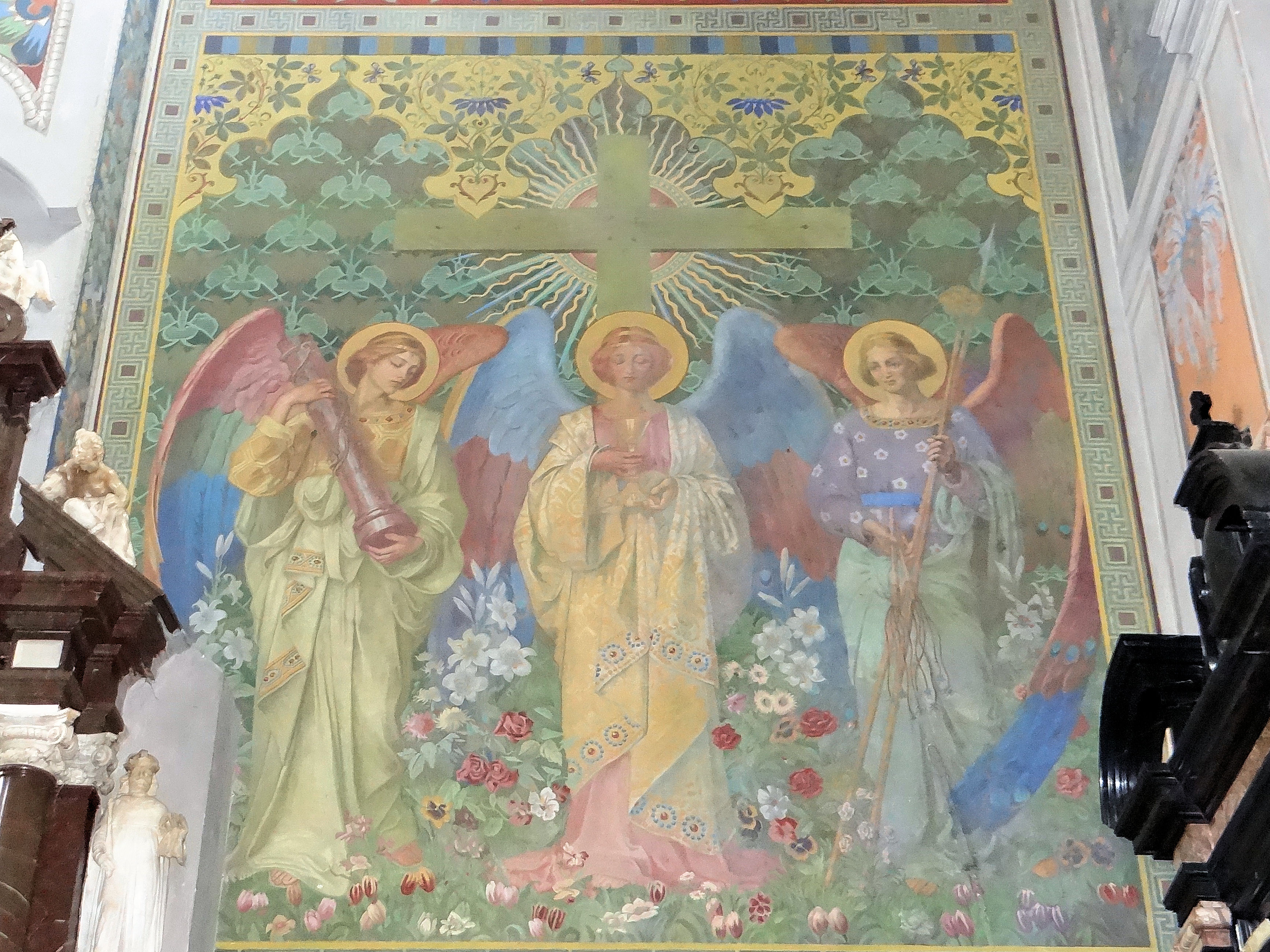 Vaulting in Płock Cathedral